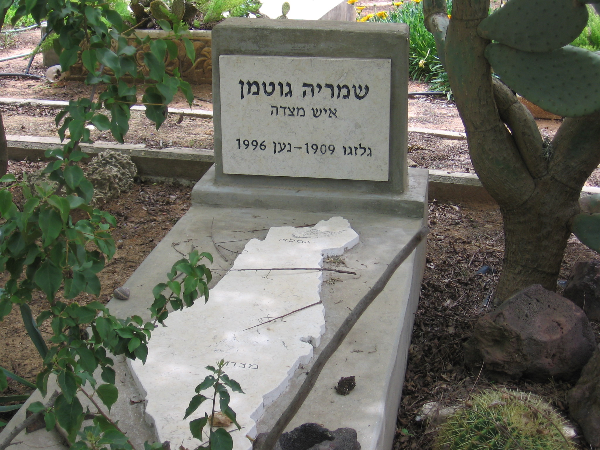 Geography of Israel